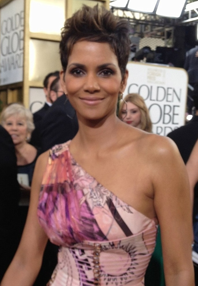 Halle Berry at the Golden Globes 2013.